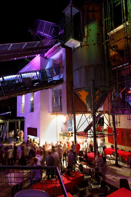 Industrial landmark - Art Space Kieswerk in Weil am Rhein